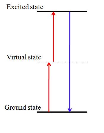 Two photon absorption upconversion